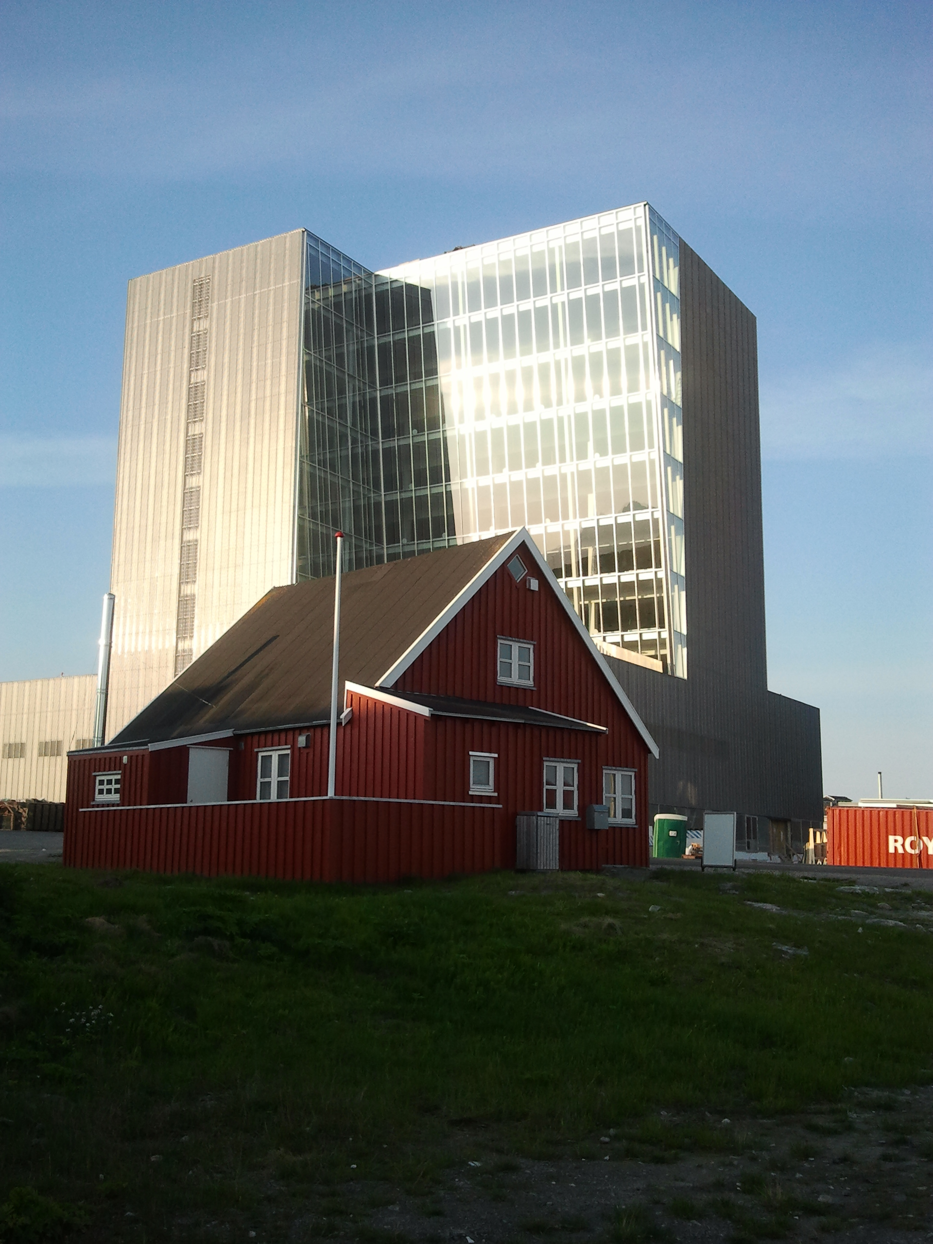 Central administration of Greenland